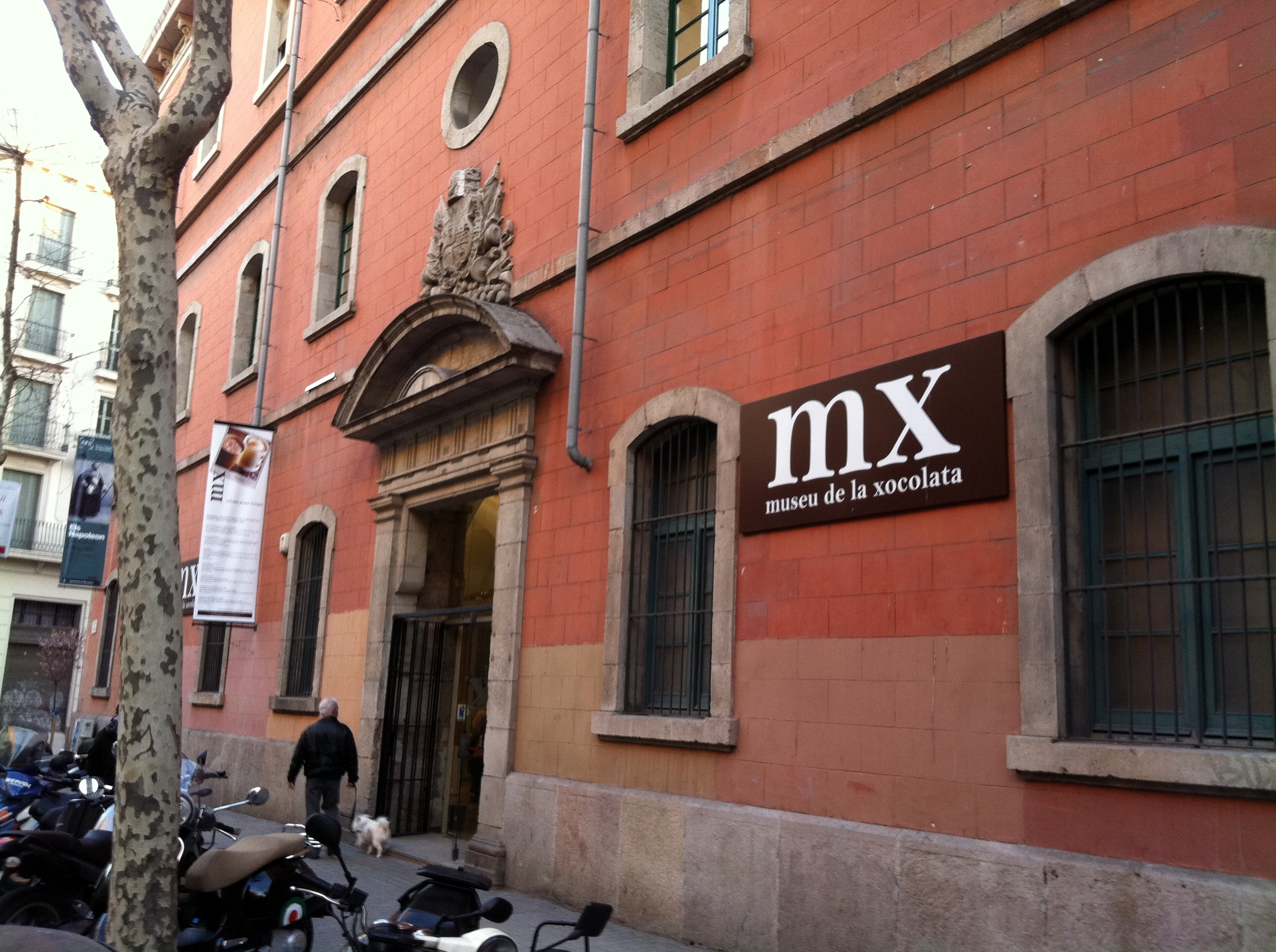 Xocolate Museum of Barcelona